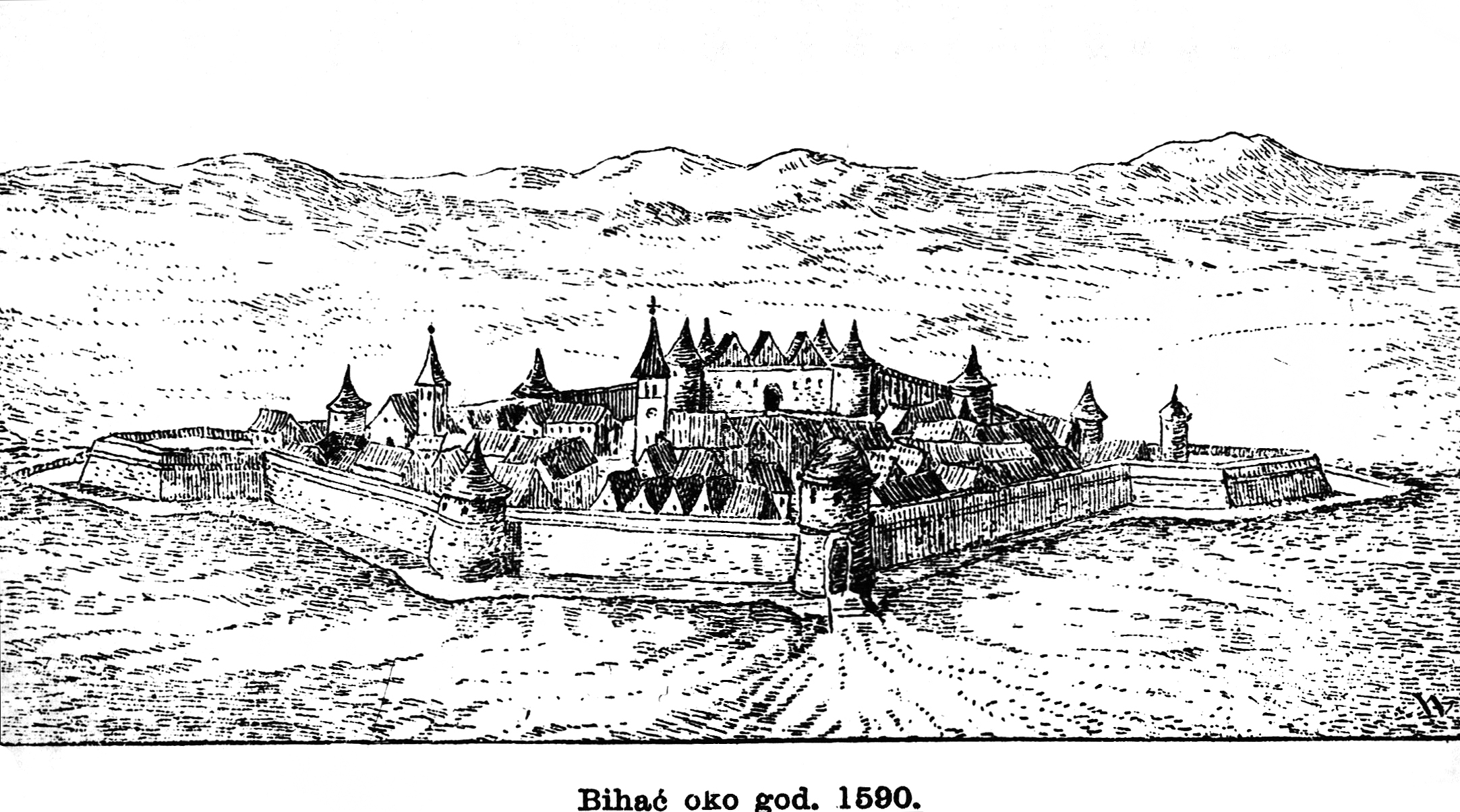 Bihać fortified place of Croatia Kingdom